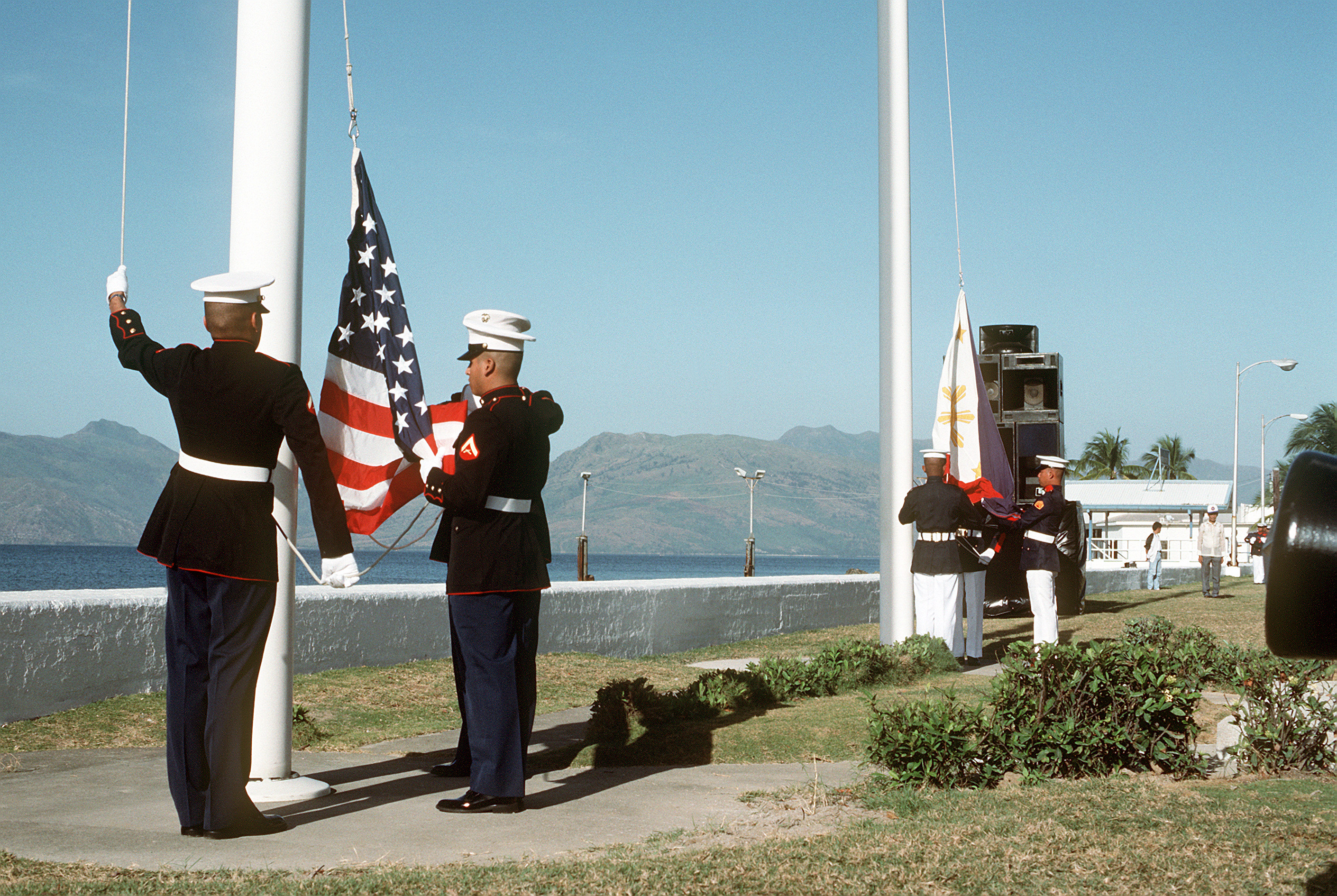 U.S. Marines raise the American flag as their Philippine counterparts raise their ensign during morning colors at the start of the base deactivation ceremony for Naval Station, Subic Bay. U.S. Naval personnel are relinquishing control of both Subic Bay and Naval Air Station, Cubi Point, to the Philippine government and Subic Bay will now be recognized as Subic Bay Metropolitan Authority Headquarters.Location: NAVAL STATION, SUBIC BAY, LUZON PHILIPPINES (PHL)